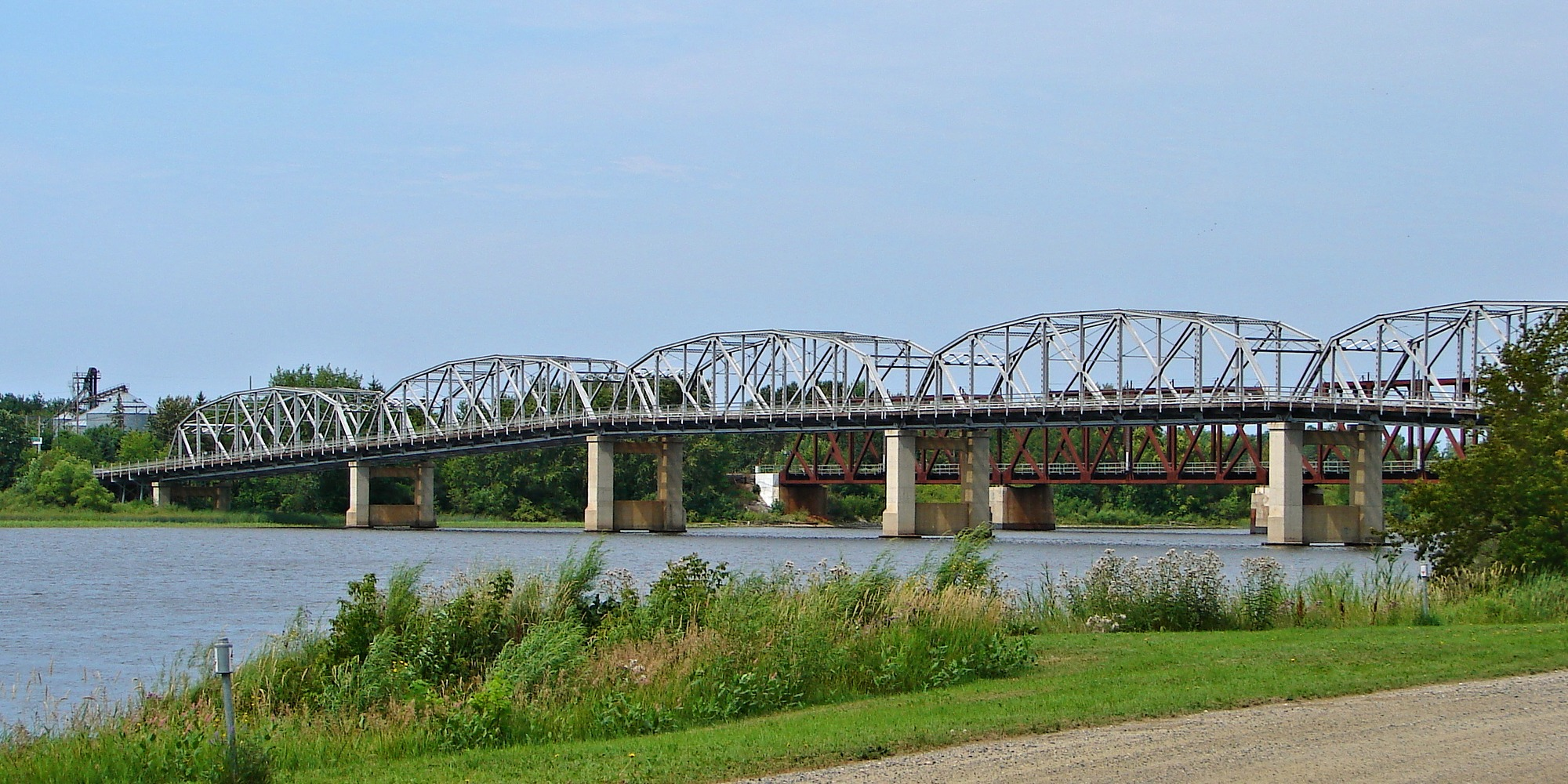 Baudette-Rainy River International Bridge between Rainy River, Ontario, Canada, and Baudette, Minnesota, United States. Viewed from the Canadian side.